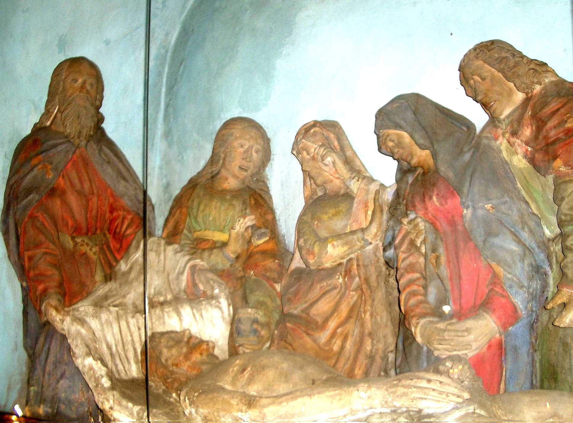 Unknown Master, Lamentation of Christ, terracotta, second half of XV century, Collegiata di Santa Maria, Chivasso, Italy